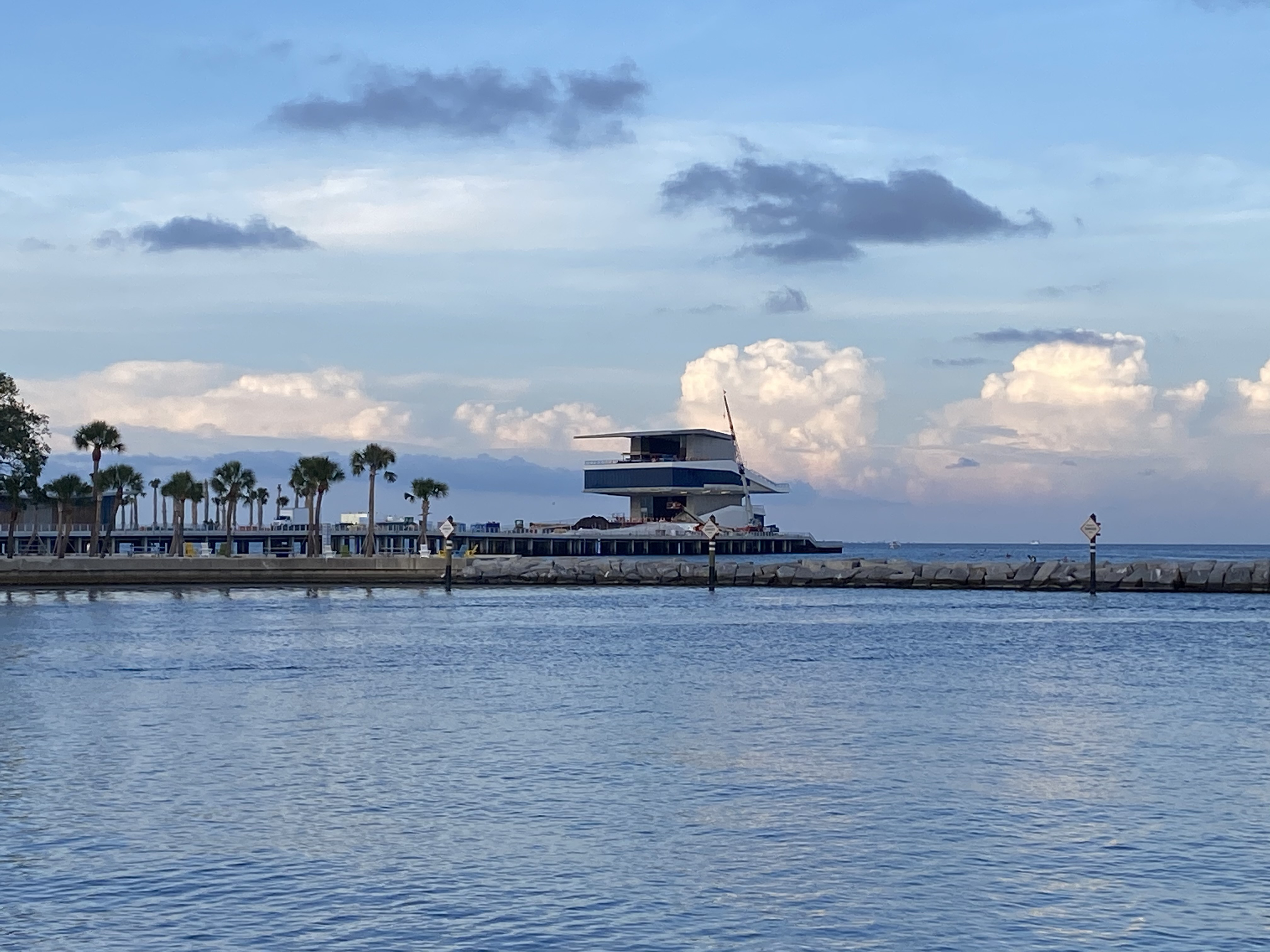 View of the St. Petersburg Pier during its construction in May 2020.